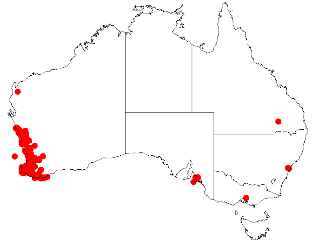 Acacia alata Occurrence data from Australasia Virtual Herbarium downloaded from on 8 December 2018